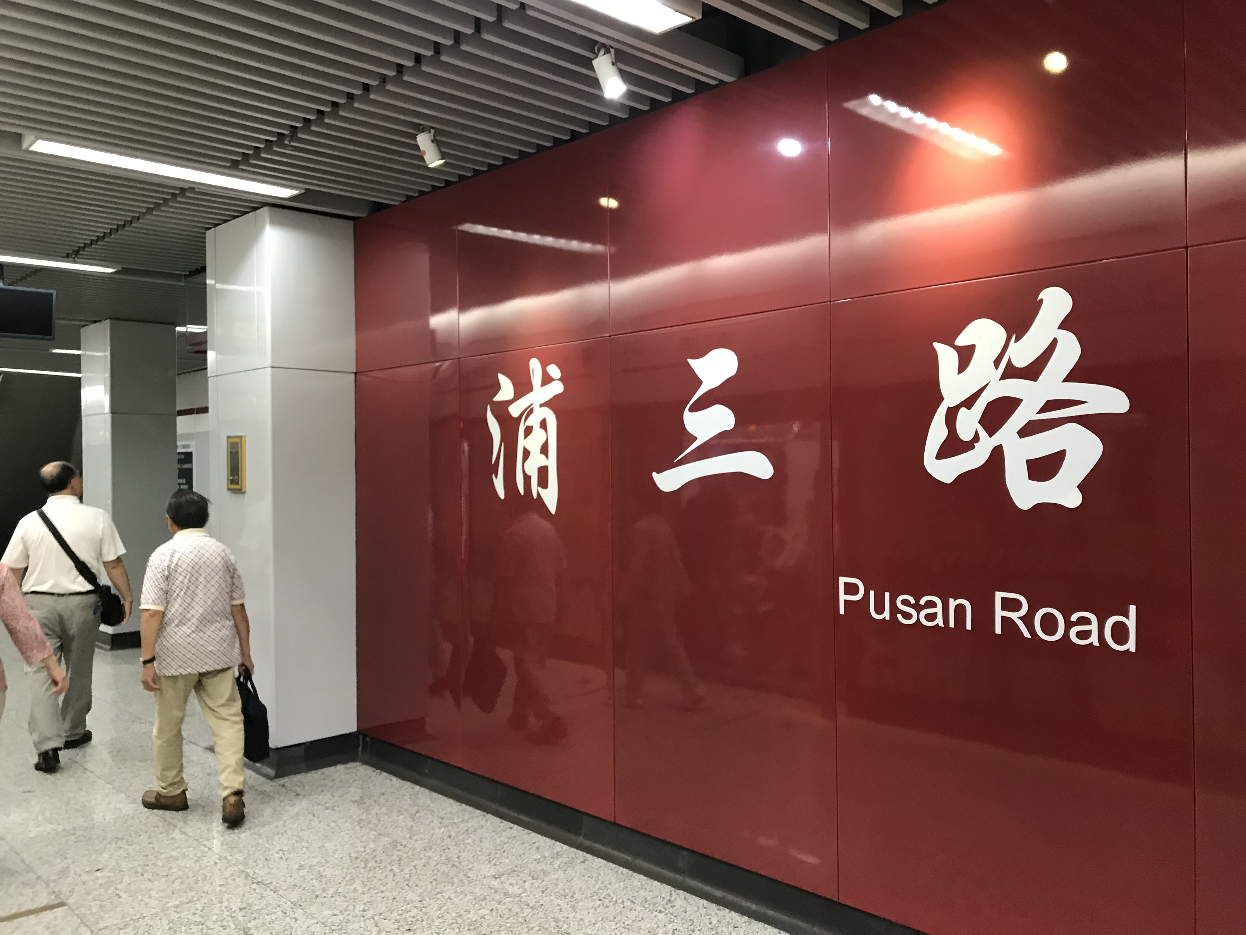 201806 Pusan Road Station